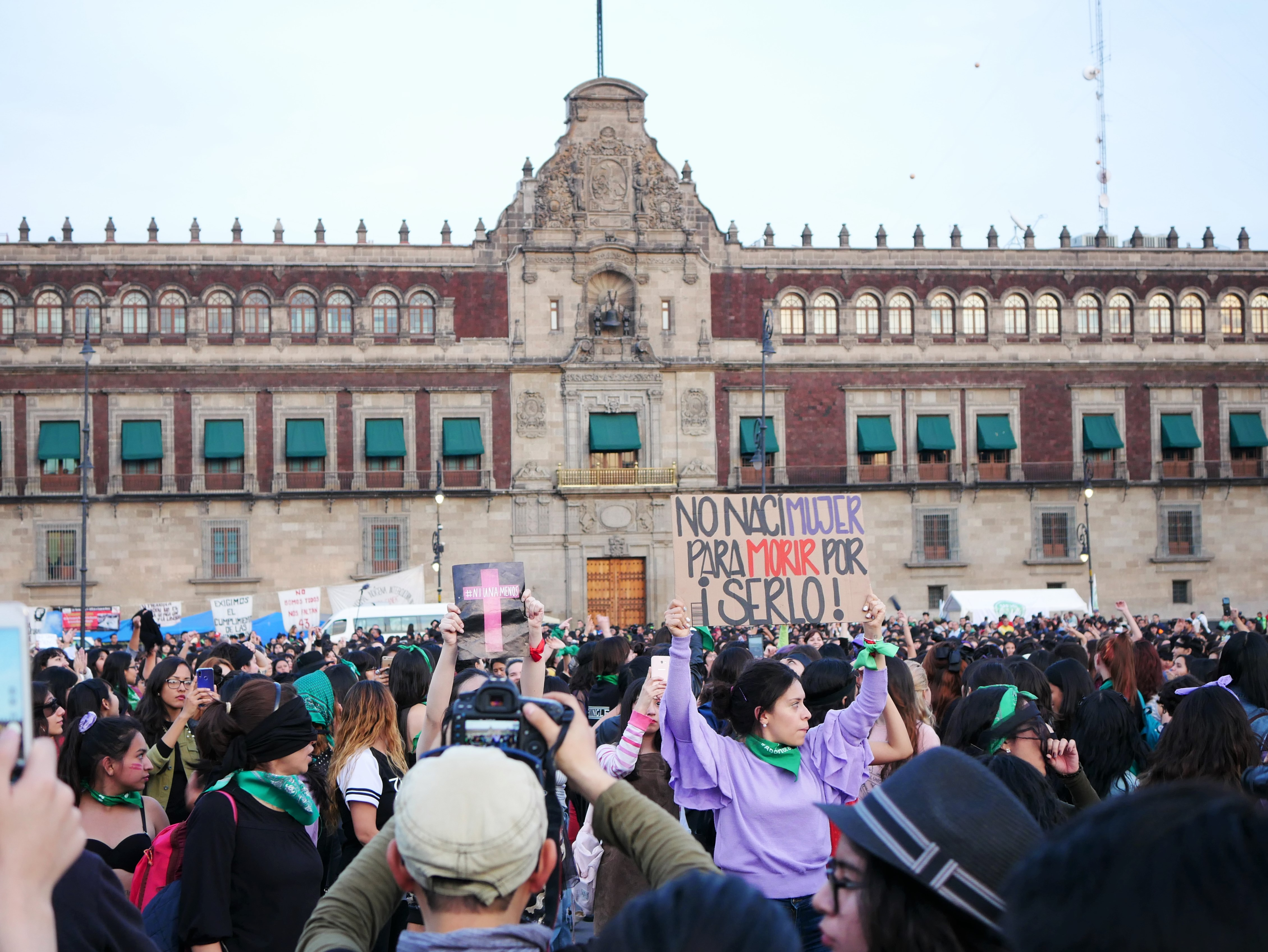 Protesters at a femicide protest in Zocalo, Mexico City the day after International Day for the Elimination of Violence Against Women 2019. The sign says "No nací mujer para morir por serlo"- "I was not born a woman to die for being it".